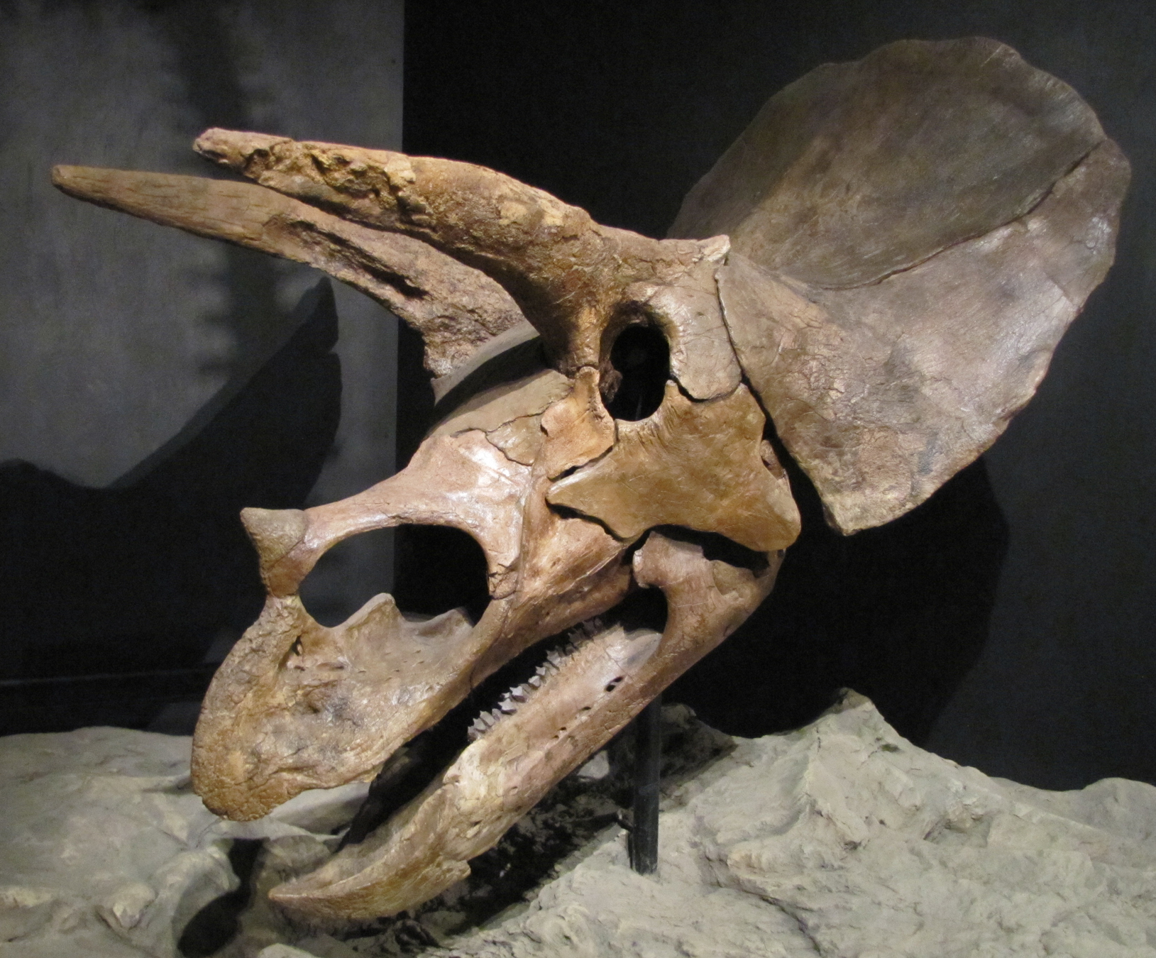 Skull of Triceratops horridus from the Houston Museum of Natural Sciences.